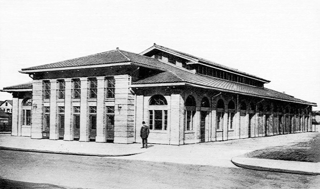 The Norwood Market House at the corner of Mills Avenue and Walter Avenue in Norwood, Ohio, c. 1910. The building was first used as a farmer's market when it was built sometime between 1905 and 1910. Later uses included skating rink, Victory Park Pool bathhouse, Norwood Safety Lane, Norwood Boxing Club gym. Today it is used by the City of Norwood for storage.